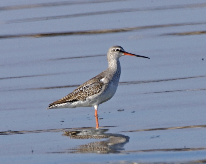 Spotted Redshank (Tringa erythropus) Wintering in El Fayoum, Egypt January 5, 2008